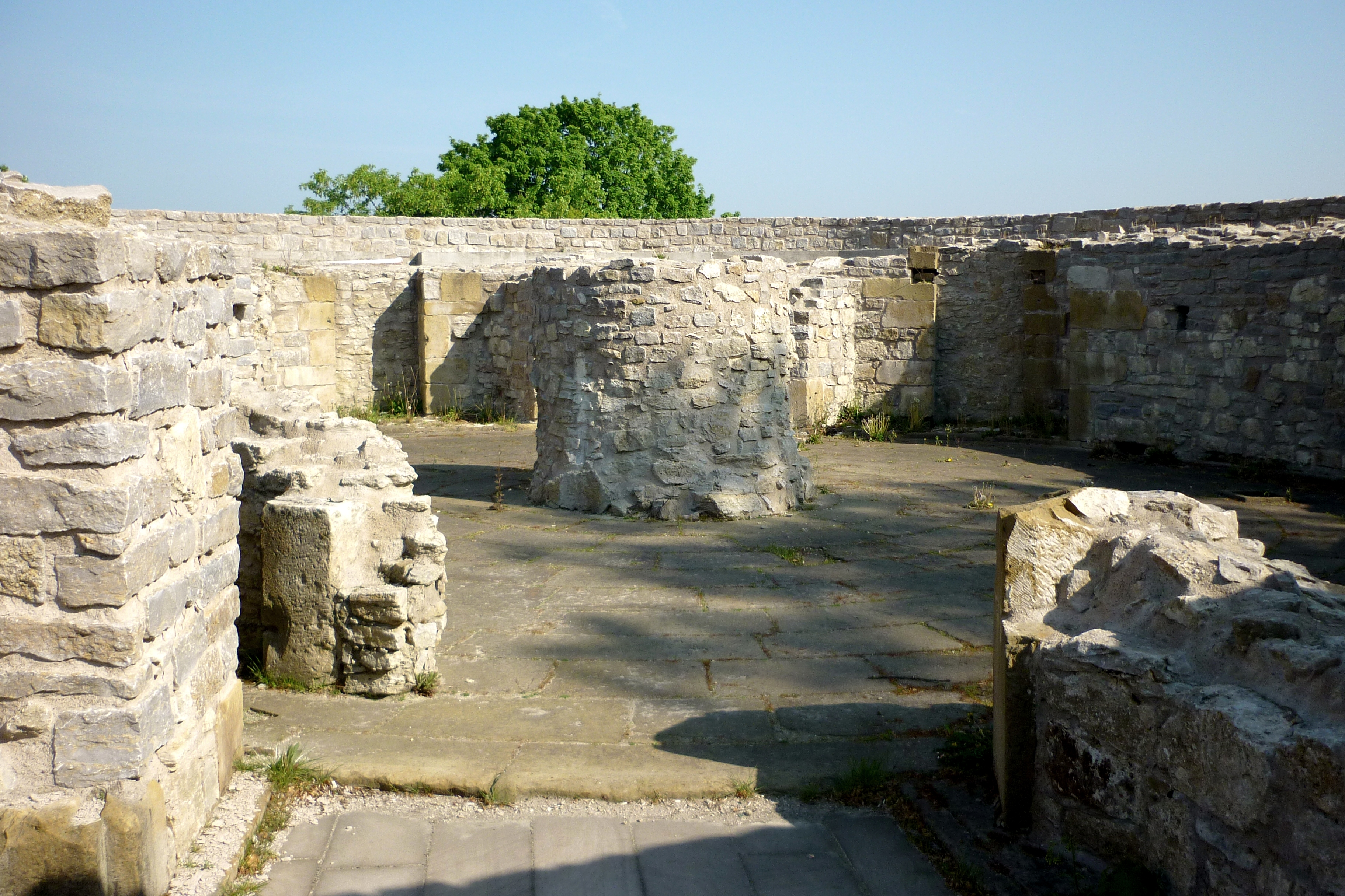 Germany, Bielefeld: Sparrenberg Castle (commonly named “Sparrenburg”). Kiekstattrondell